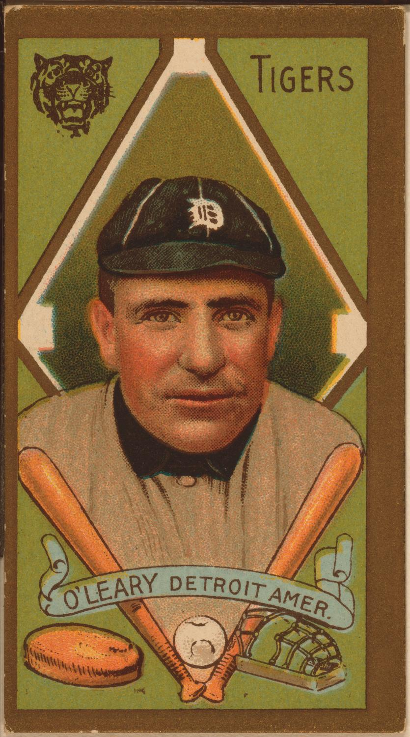 Baseball card of Charley O'Leary